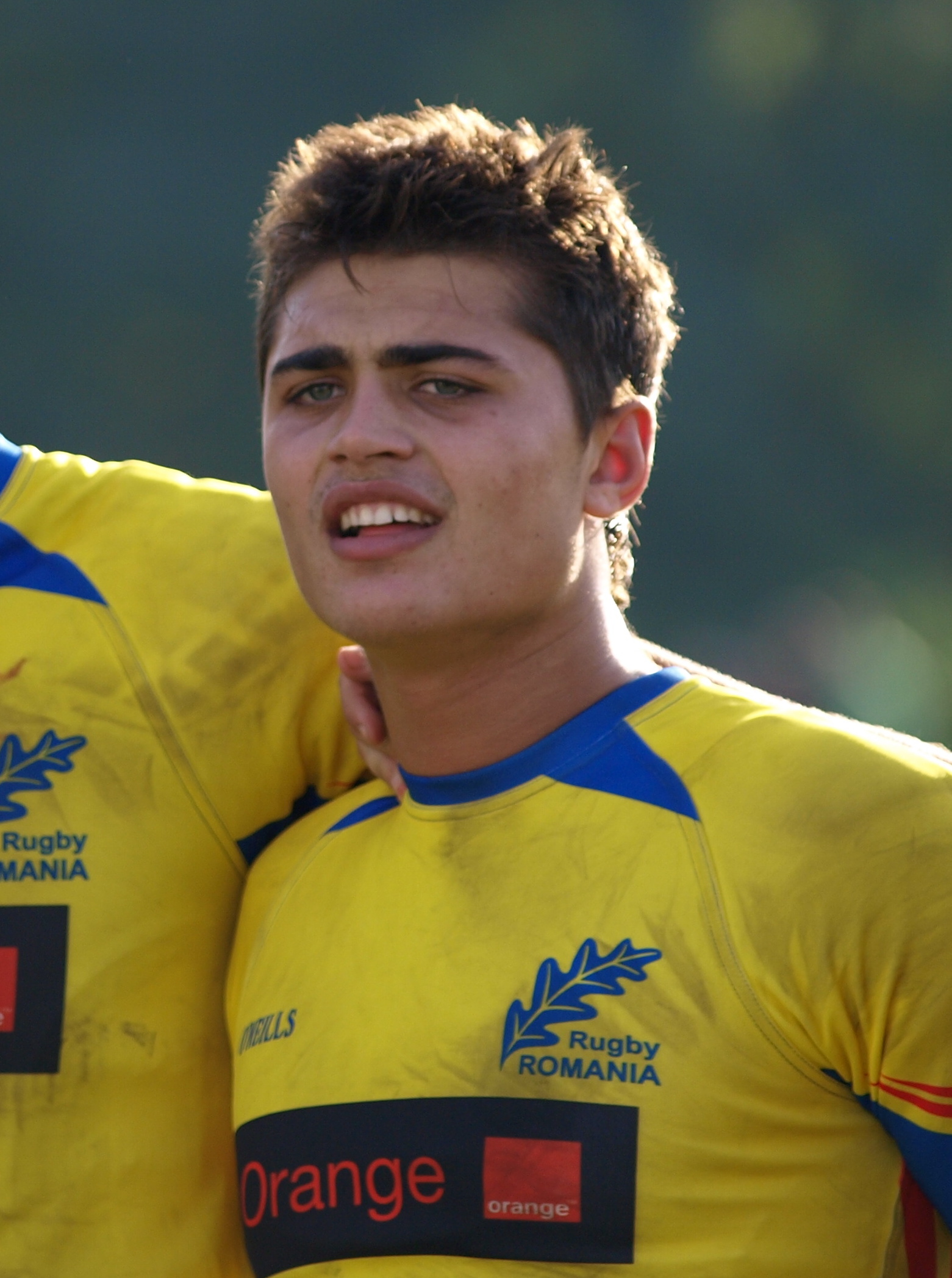 Romanian Junior U-19 Oaks Rugby 2008.jpg